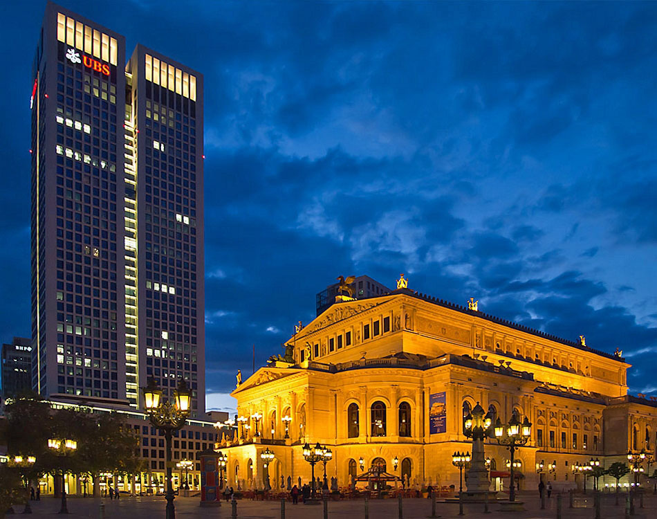 The Old Opera at the Opernplatz is a concert hall and former opera house in Frankfurt am Main, Germany. In the left there is the Opernturm (Opera Tower), it is 170 m high and has 43-storeys. it is the house of the switzerland Bank USB. (O5125385-vf3)